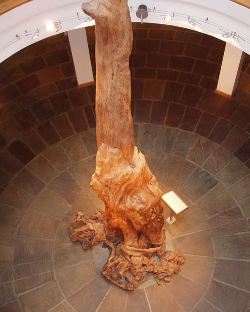 Ancient tree. Ceide Fields Visitor Centre: Scots Pine, excavated from under the bog after 4000 years